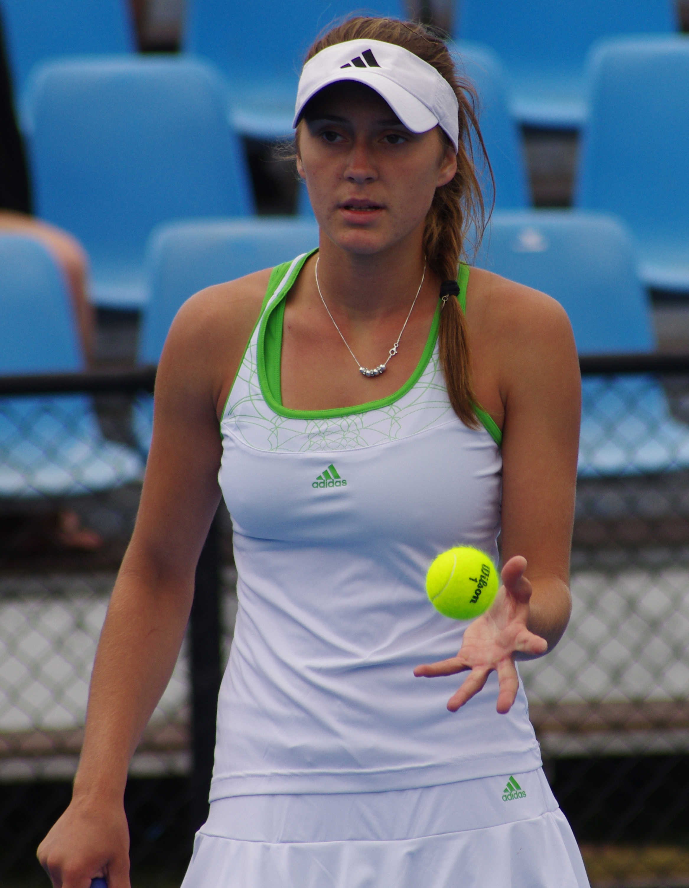 Azra Hadzic at the 2012 Apia International Sydney